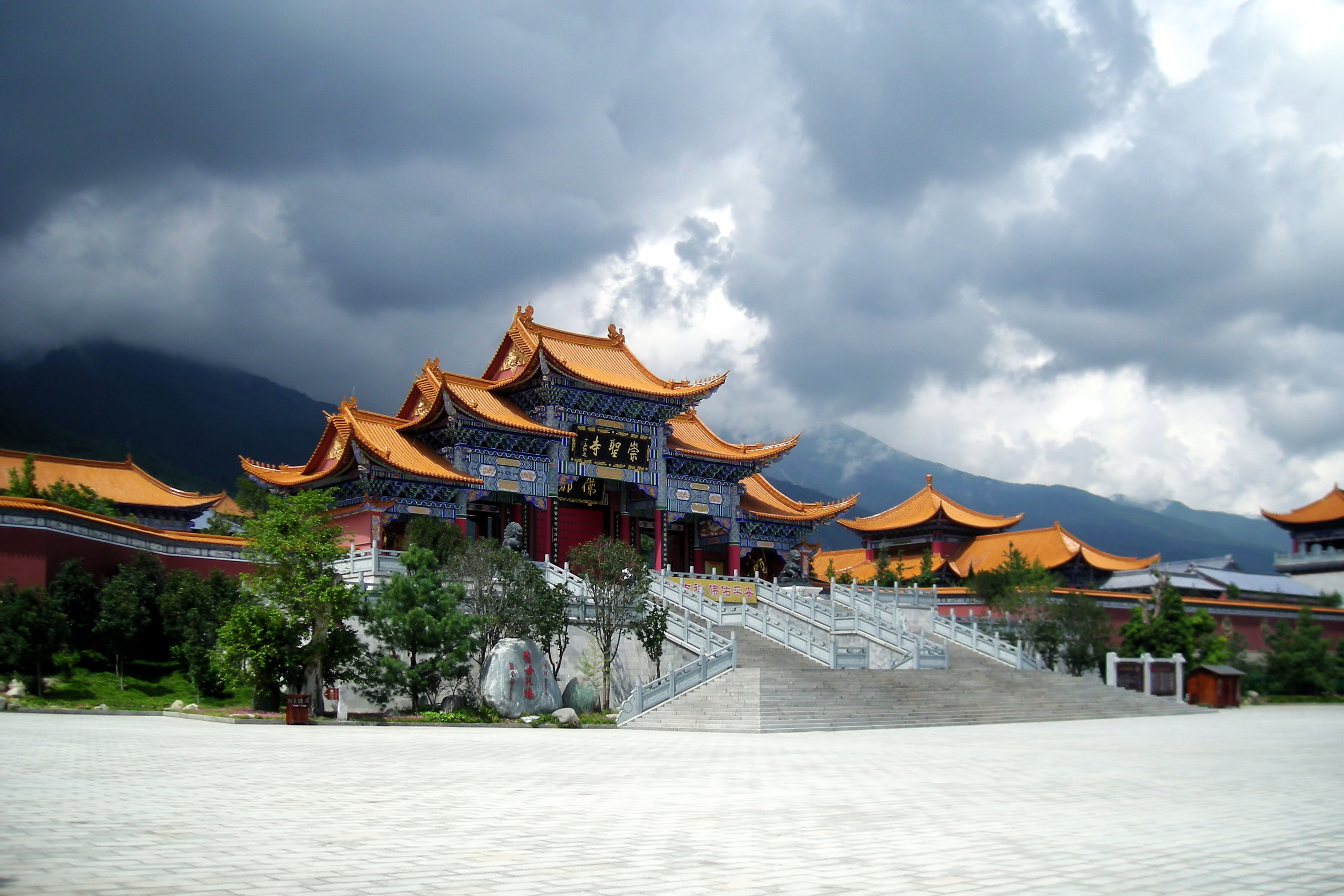 Chongsheng Temple in Dali, Yunnan, China.